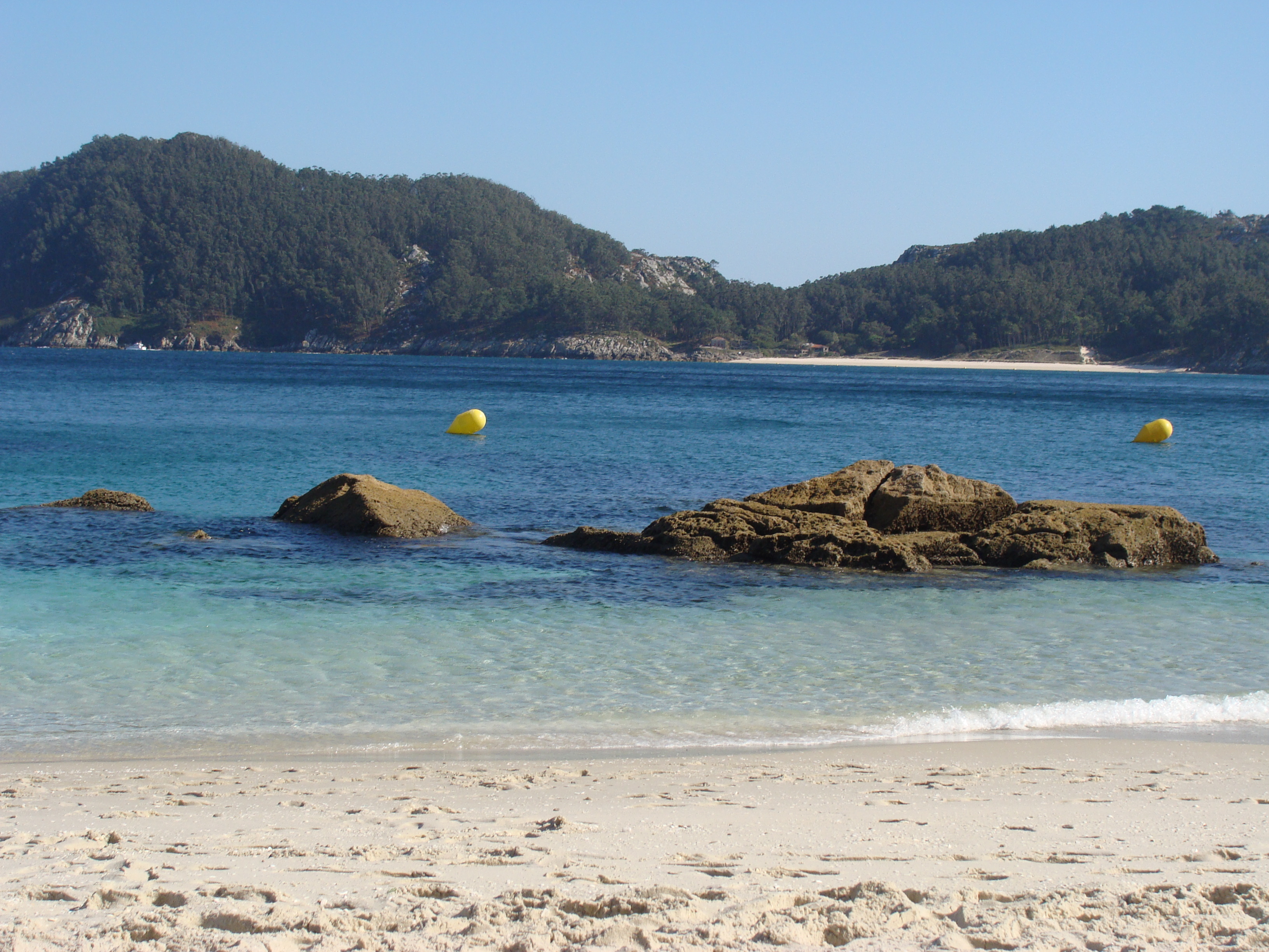 Beach of Our Lady, in Cíes Islands, Pontevedra, Galicia, Spain.